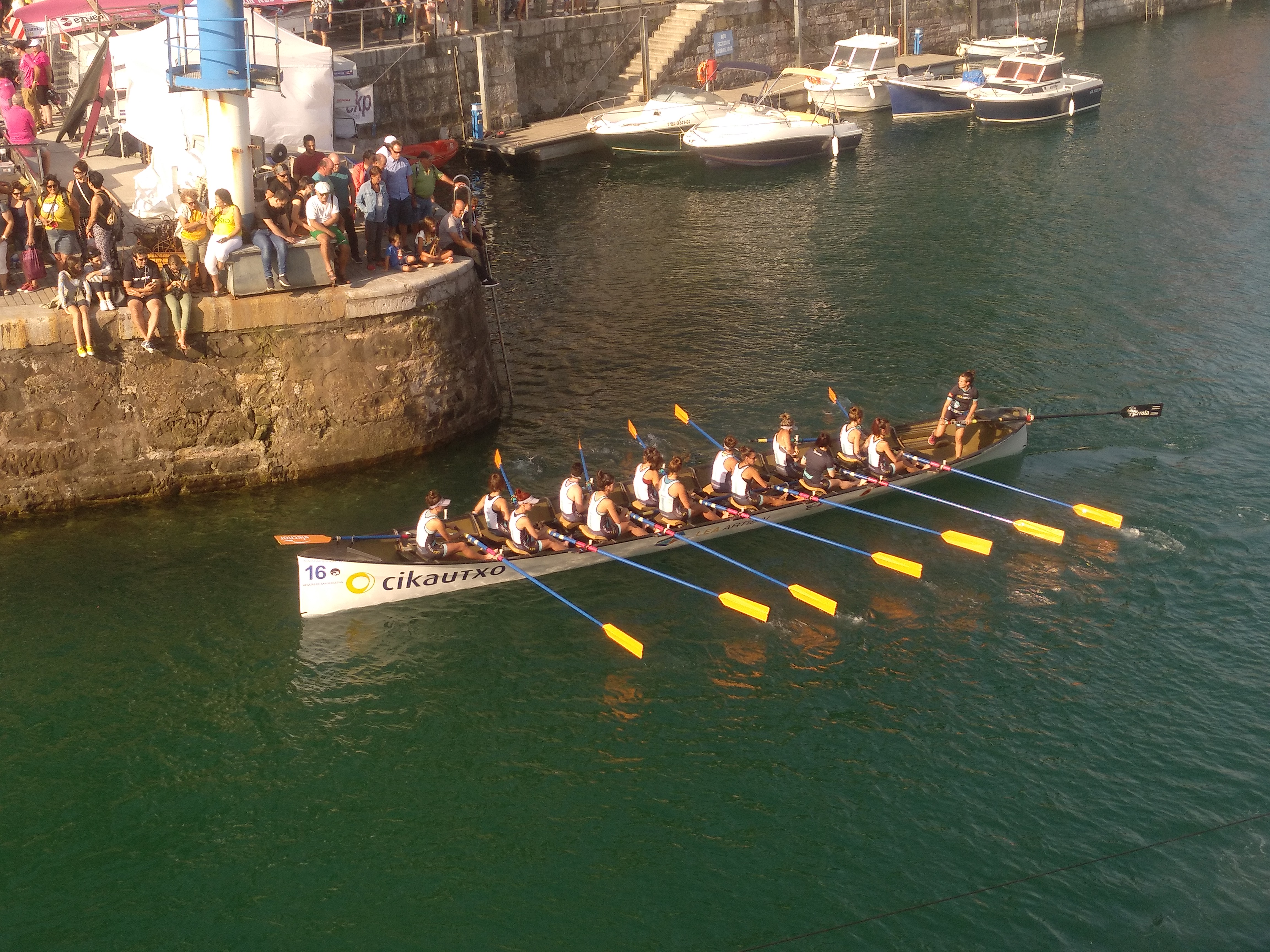 Lea Artibai, women, Flag of La Concha, 2018